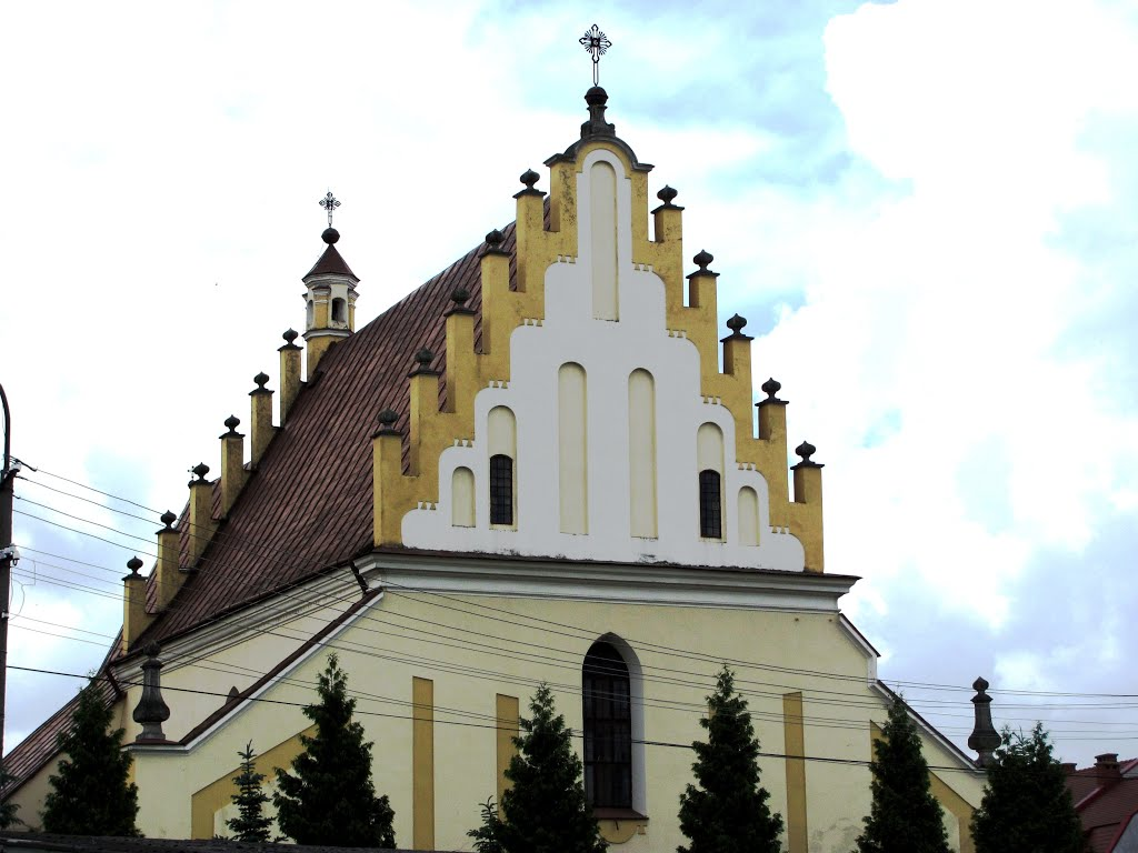 Костел Івана Хрестителя